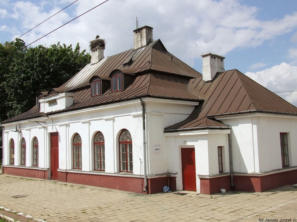 Train stations in Chotyłów.